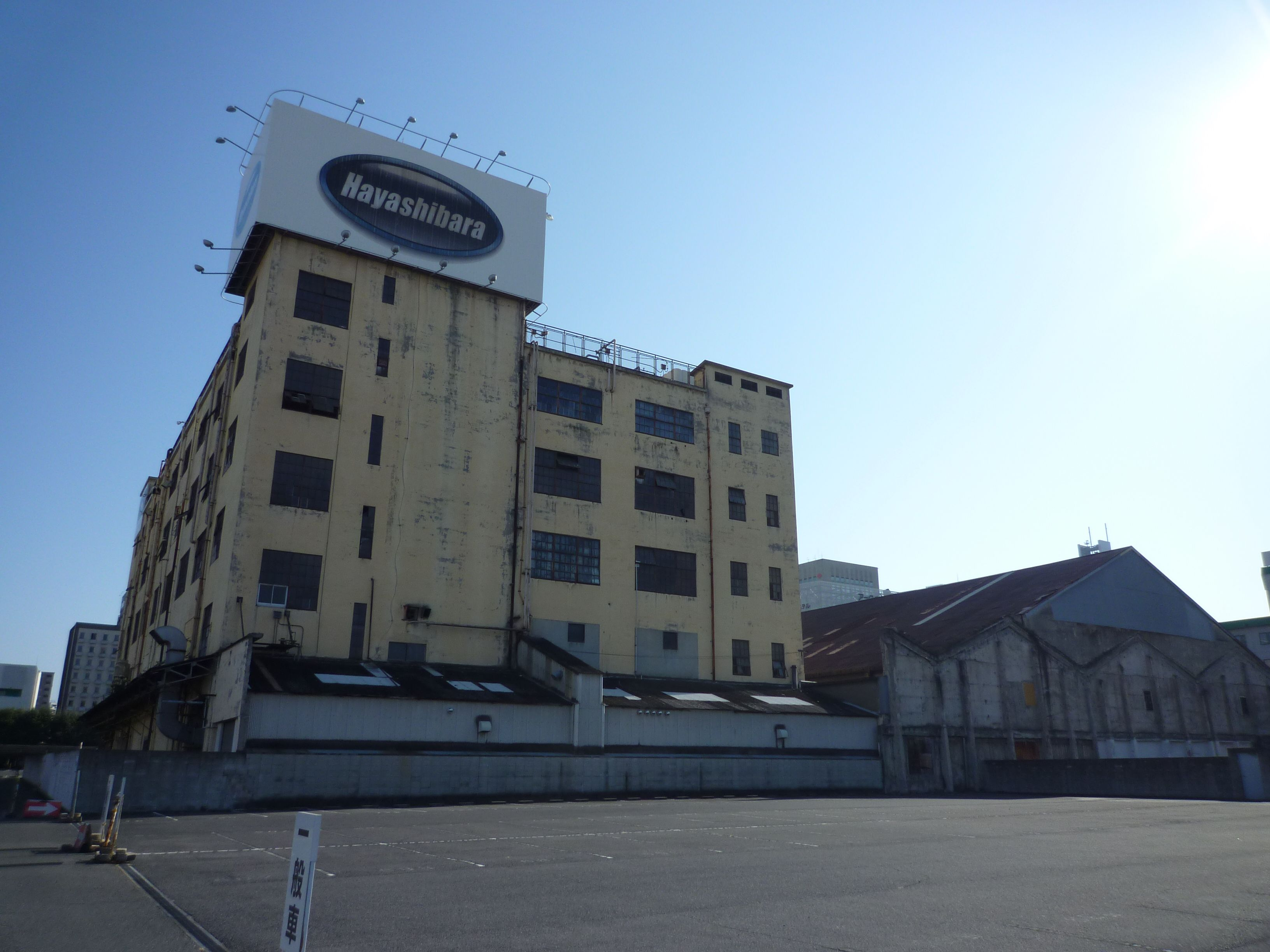 Former Hayashibara Group Head office (Kita-ku, Okayama City, Okayama Pref, JAPAN)